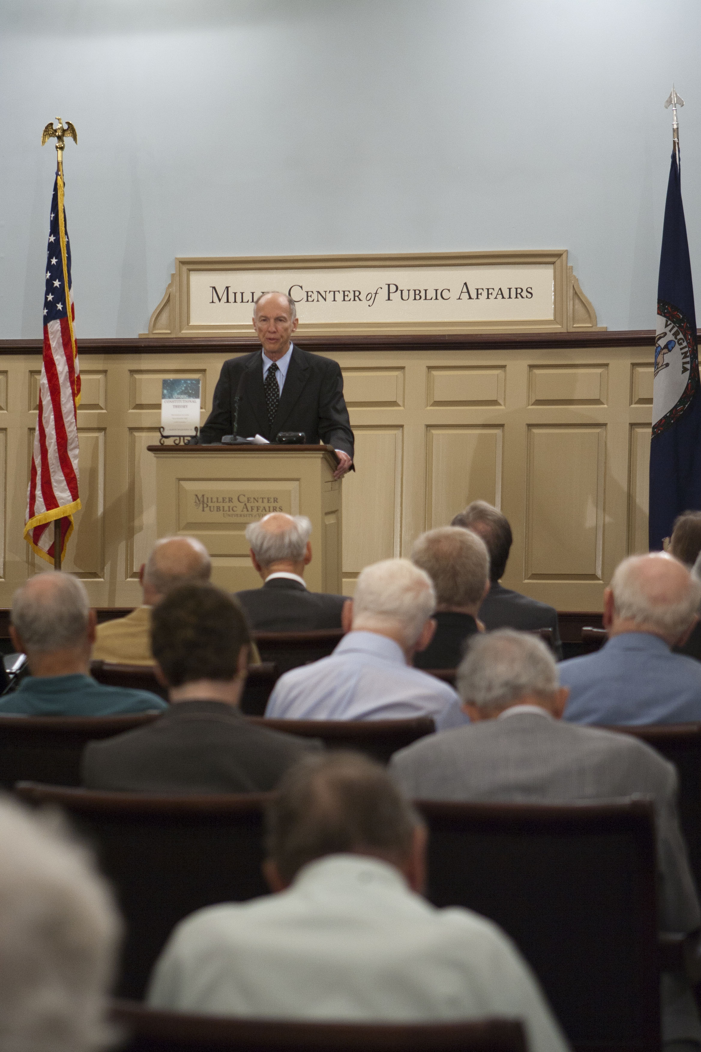 The Miller Center at the University of Virginia, speaker Judge J. Harvie Wilkinson